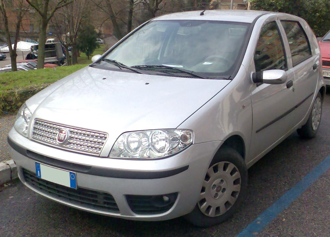 2010 Fiat Punto Classic